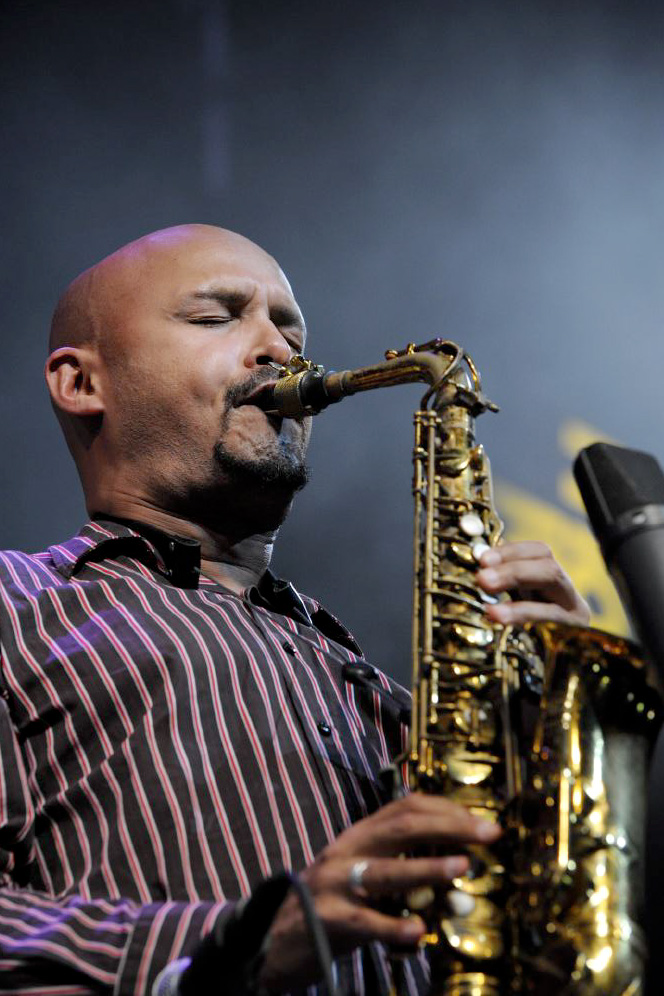 Miguel Zenon, moers festival 2009